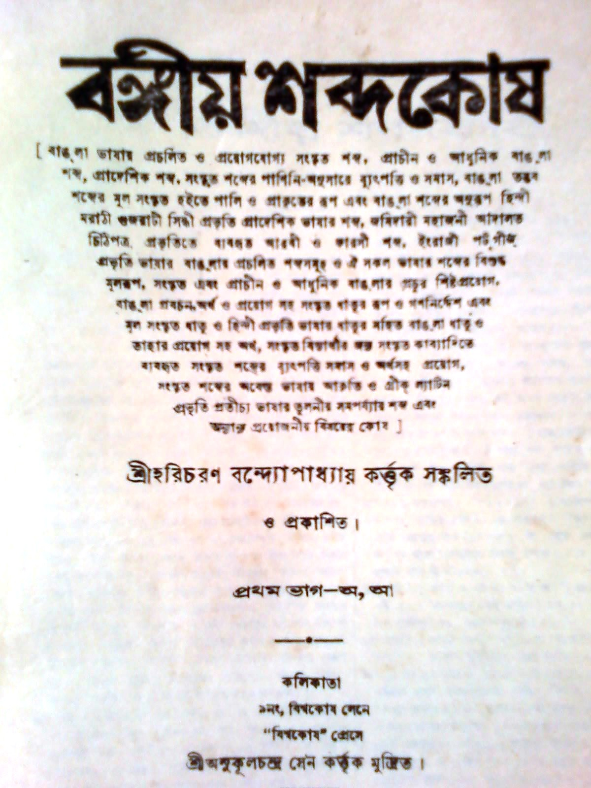 This is the title page of Bangiya Shabdakosh compiled by Late Haricharan Bandyopadhyay.